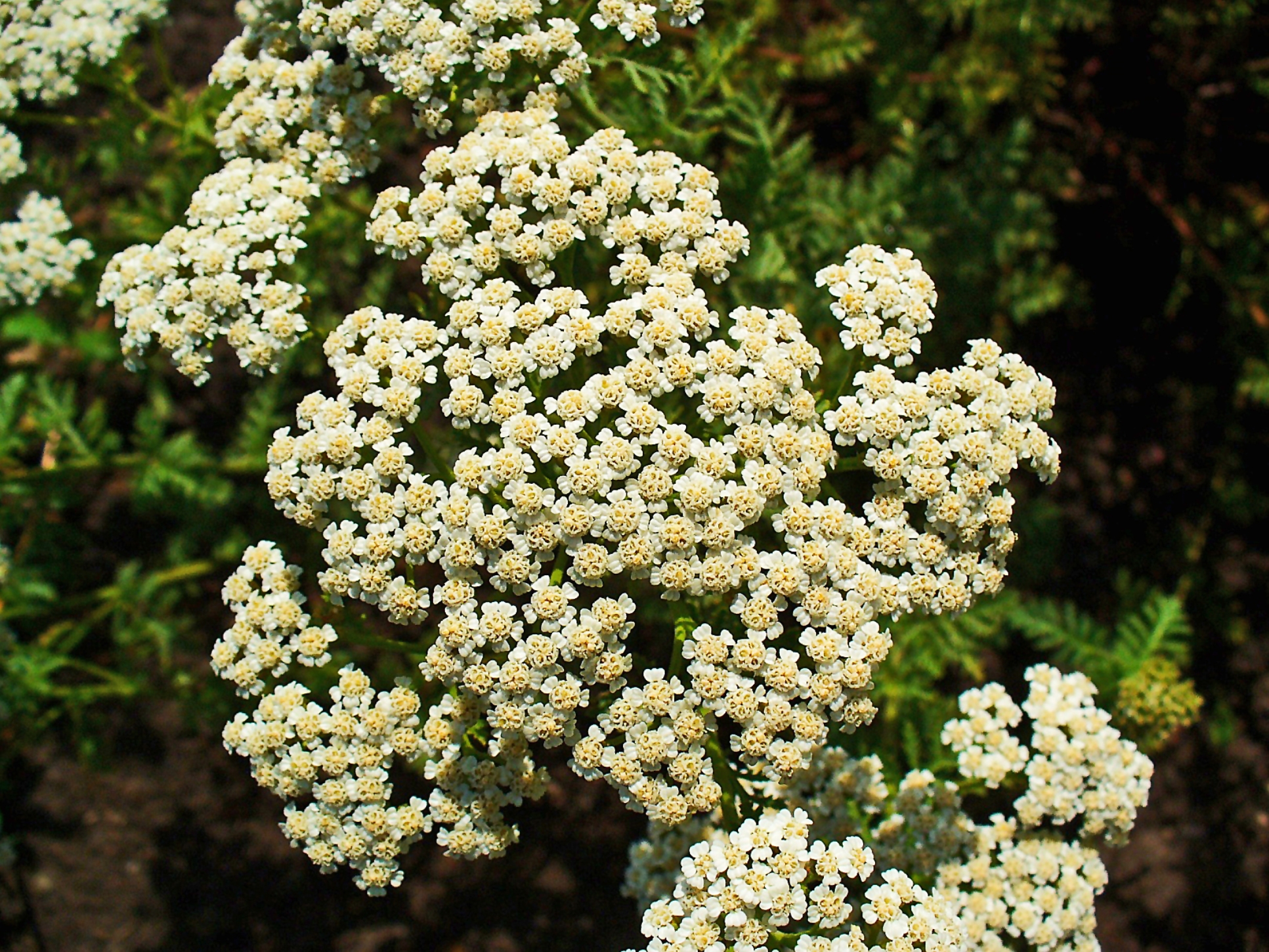 Achillea nobilis, Asteraceae, Noble Yarrow, inflorescence; Botanical Garden KIT, Karlsruhe, Germany.